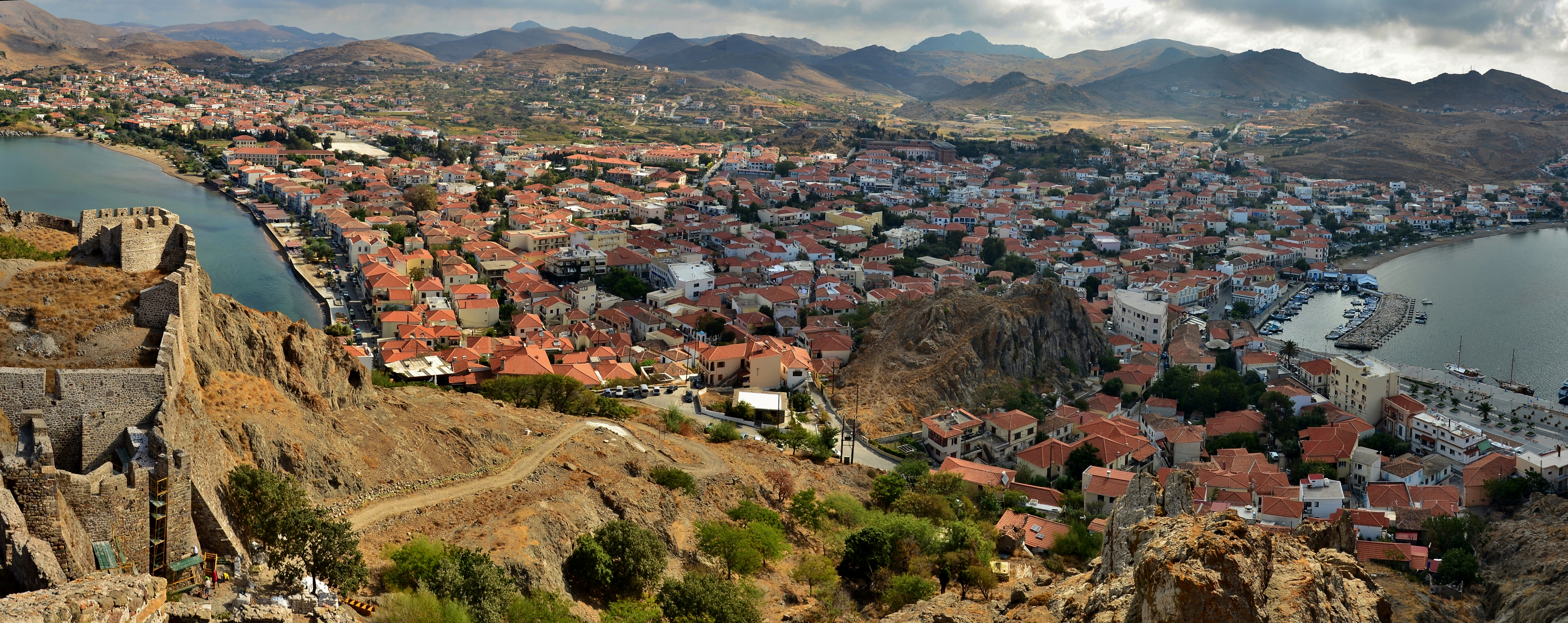 Myrina view from the castle